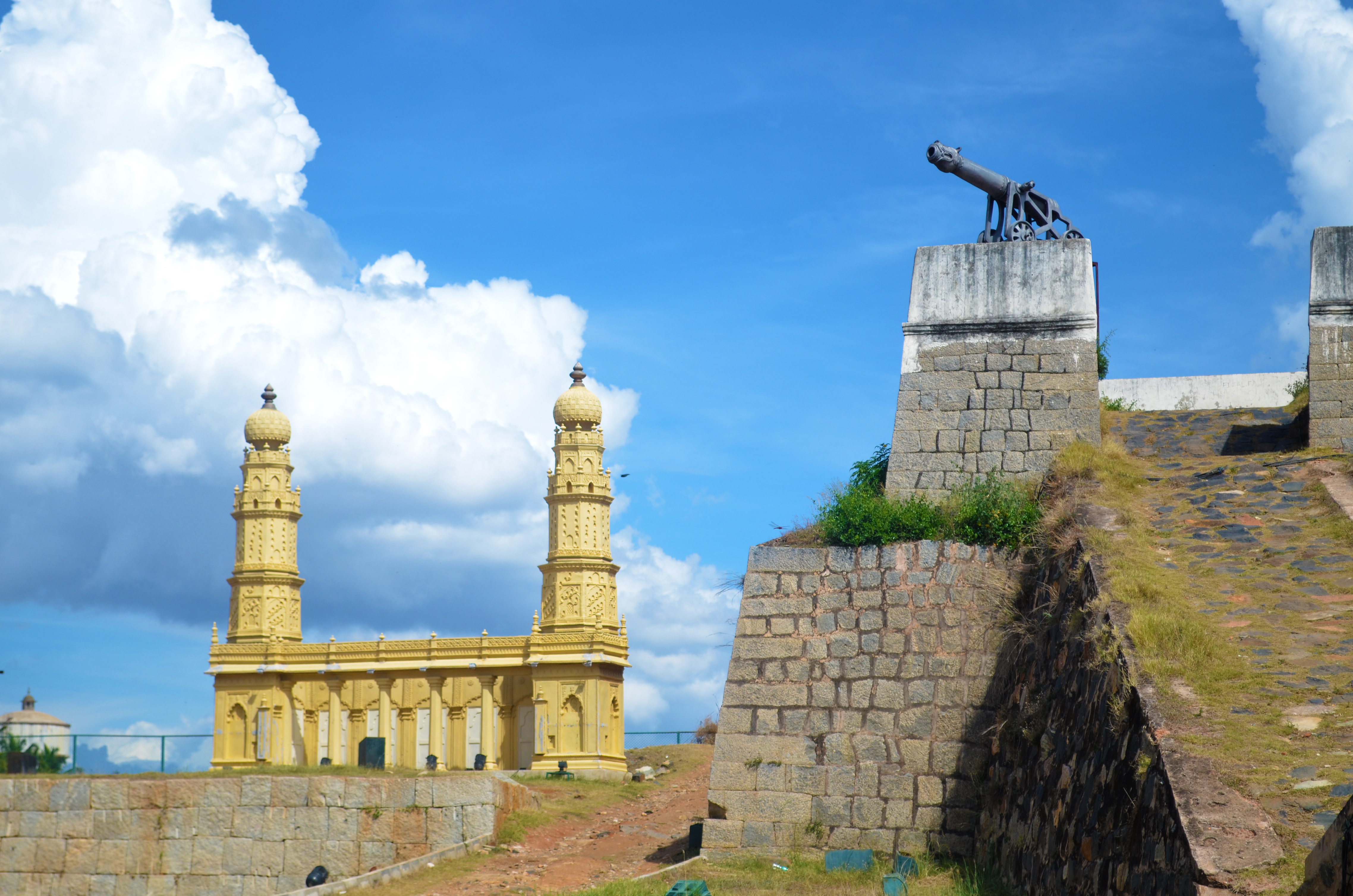 Inner compound of Srirangapatnam Light and Sound Show near Old Fort wall.